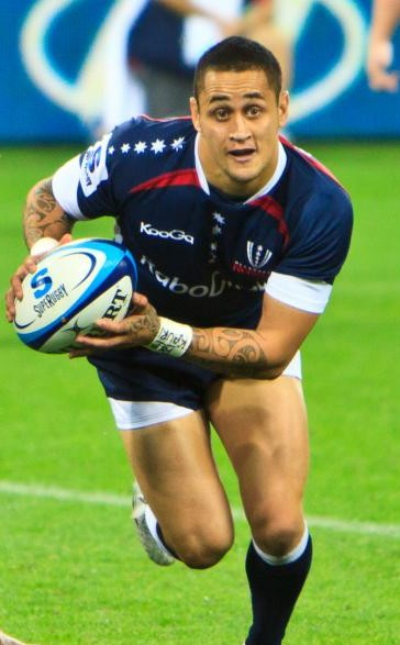 Rabodirect Rebels vs Sharks Rabodirect Rebels vs Sharks in the 2011 Super Rugby competition